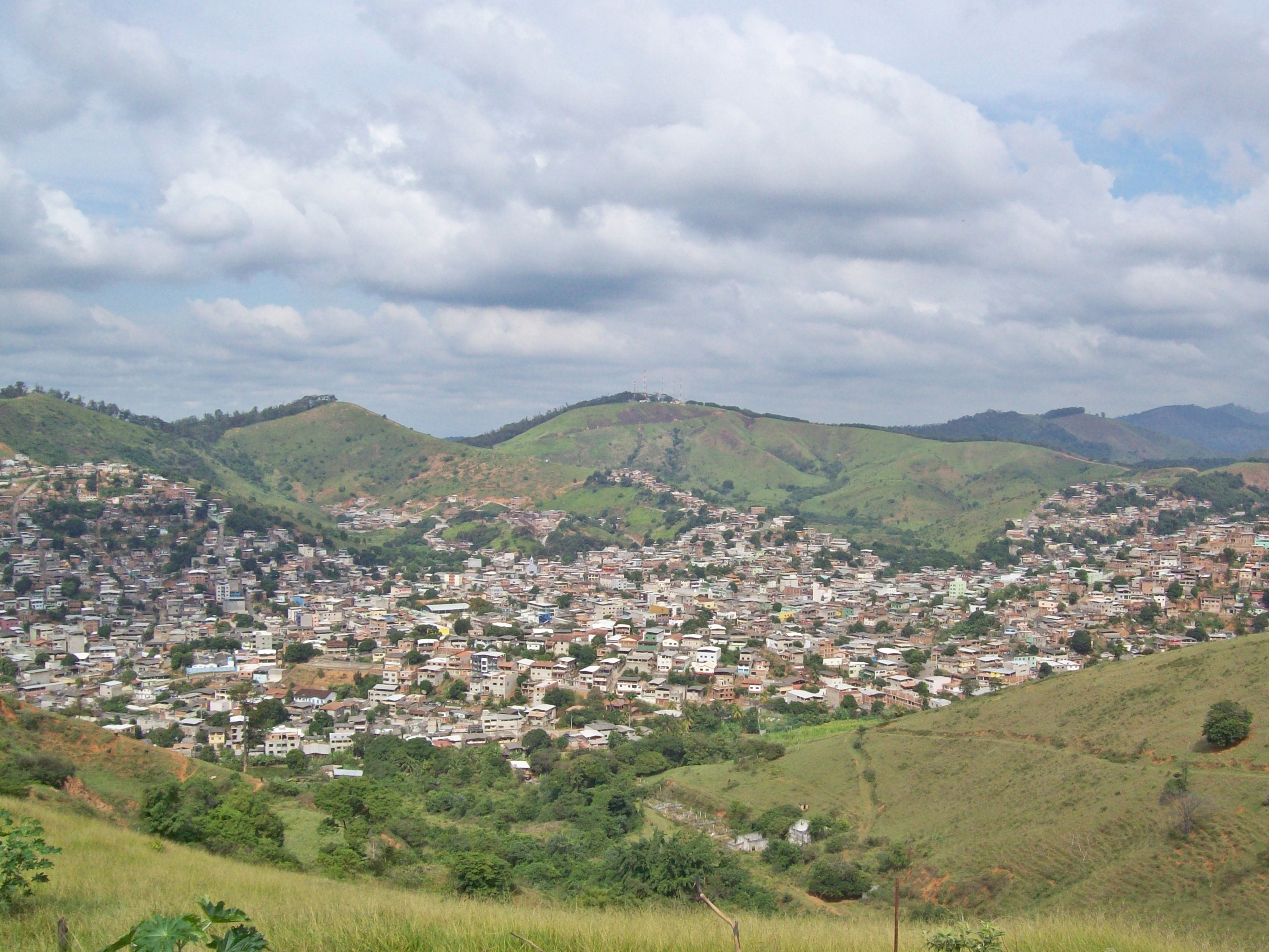 Partial view of the Bom Jardim neighborhood seen from of the Nova Esperança, in Ipatinga, Minas Gerais, Brazil.